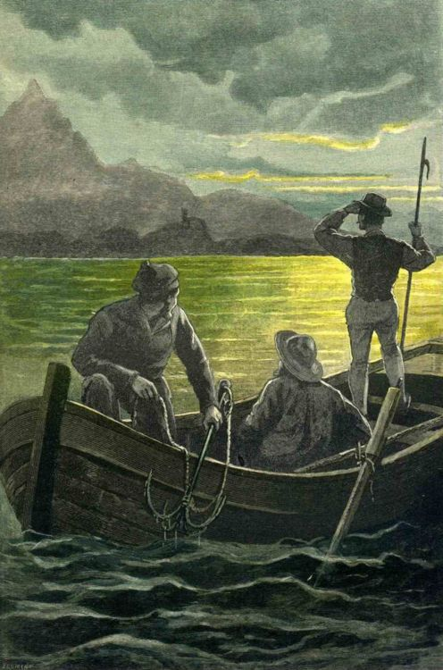 An illustration from Jules Verne's novel "The Kip Brothers" drawn by George Roux.